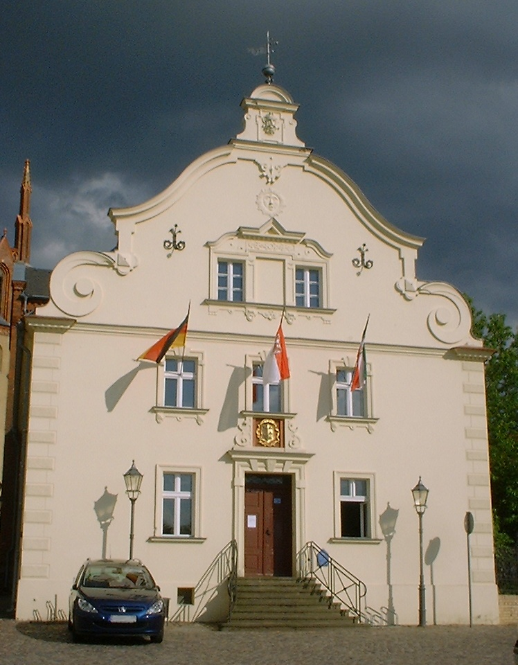 Old town hall in Werder in Brandenburg, Germany